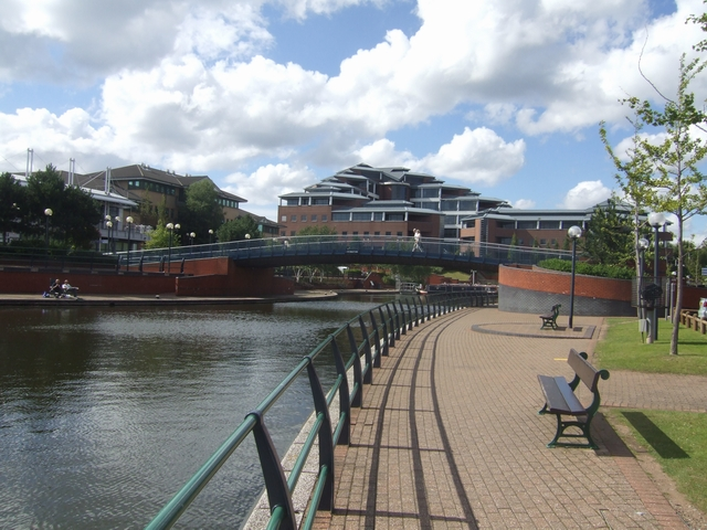 Dudley No 1 Canal - Earl of Dudley's Bridge In the heart of the Merry Hill Waterfront. The Earl of Dudley owned many of the mines and ironworks around the Black Country.